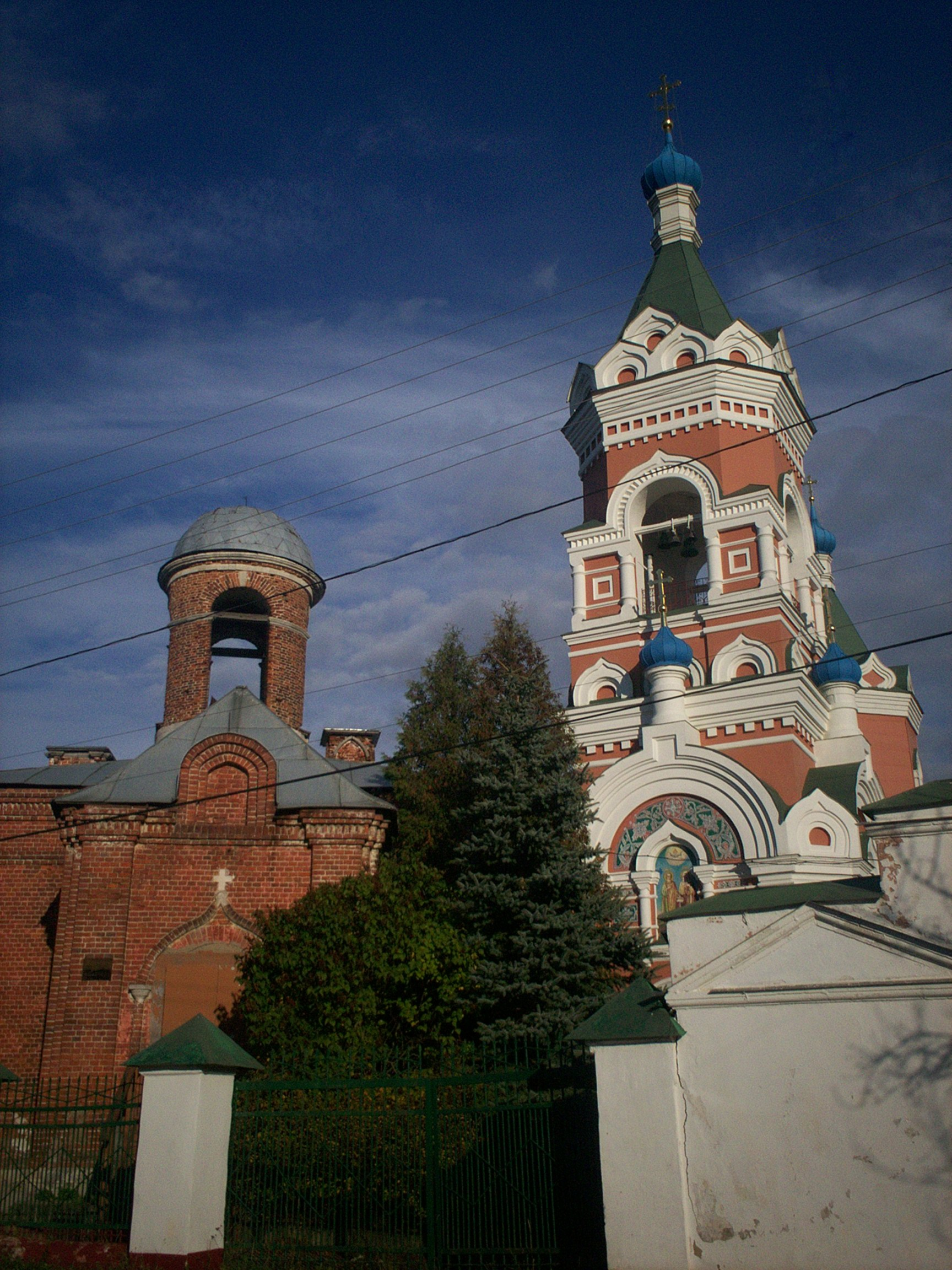 Mozhaysk, Church of the Theotokos of Akhtyrka (left) and Church of Saints Joachim and Anne (right).